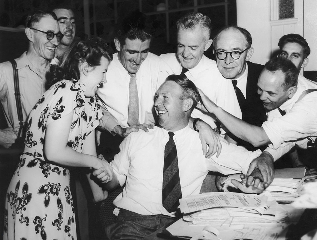 Australian cricketer Douglas Thomas Ring (1918 - 2003) is congratulated by his colleagues at the Melbourne Department of Commerce, after being picked to tour England with the Australian cricket team, 25th February 1948.